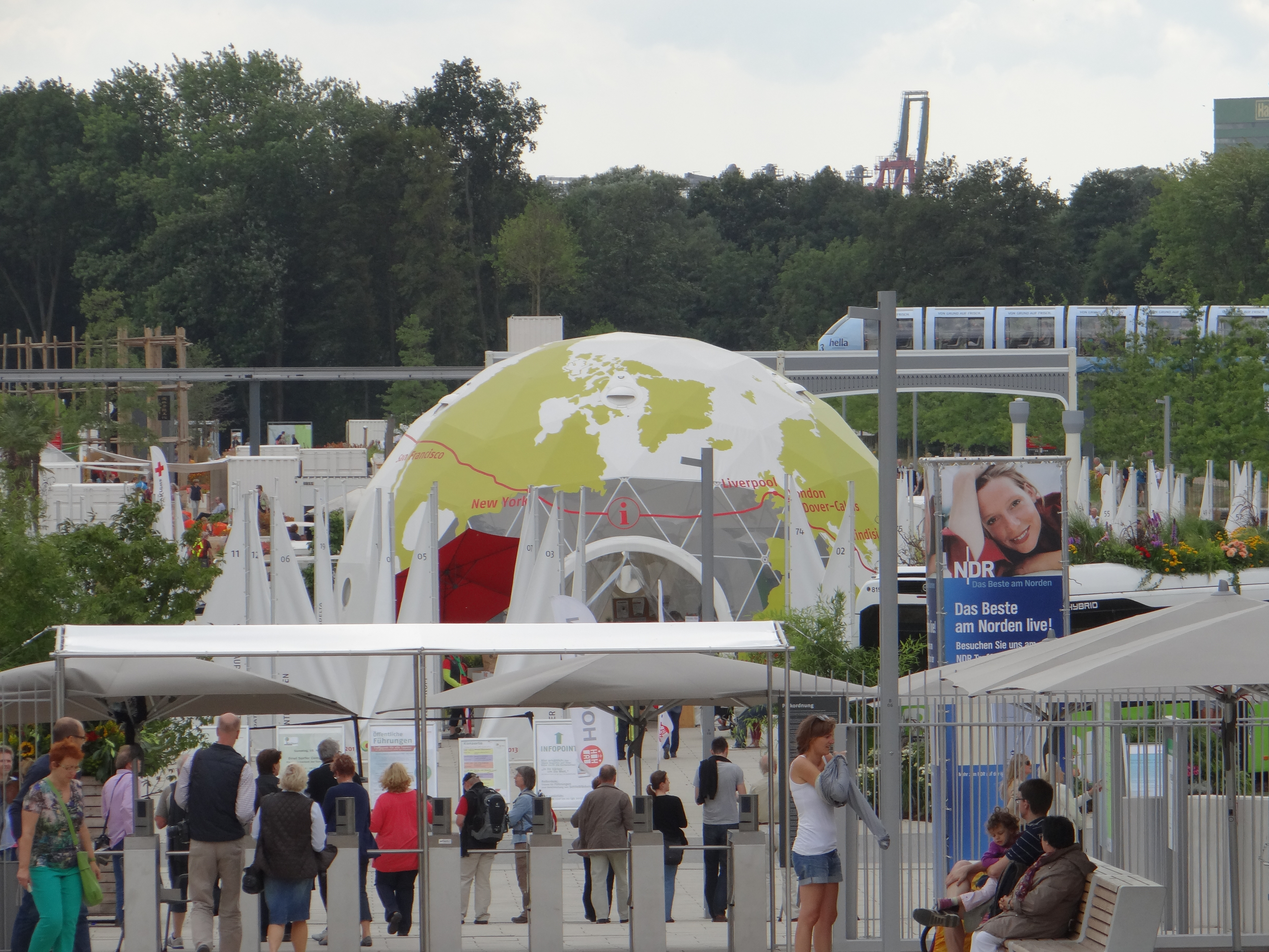 Main entrance of IGS 2013 in Hamburg, Germany.